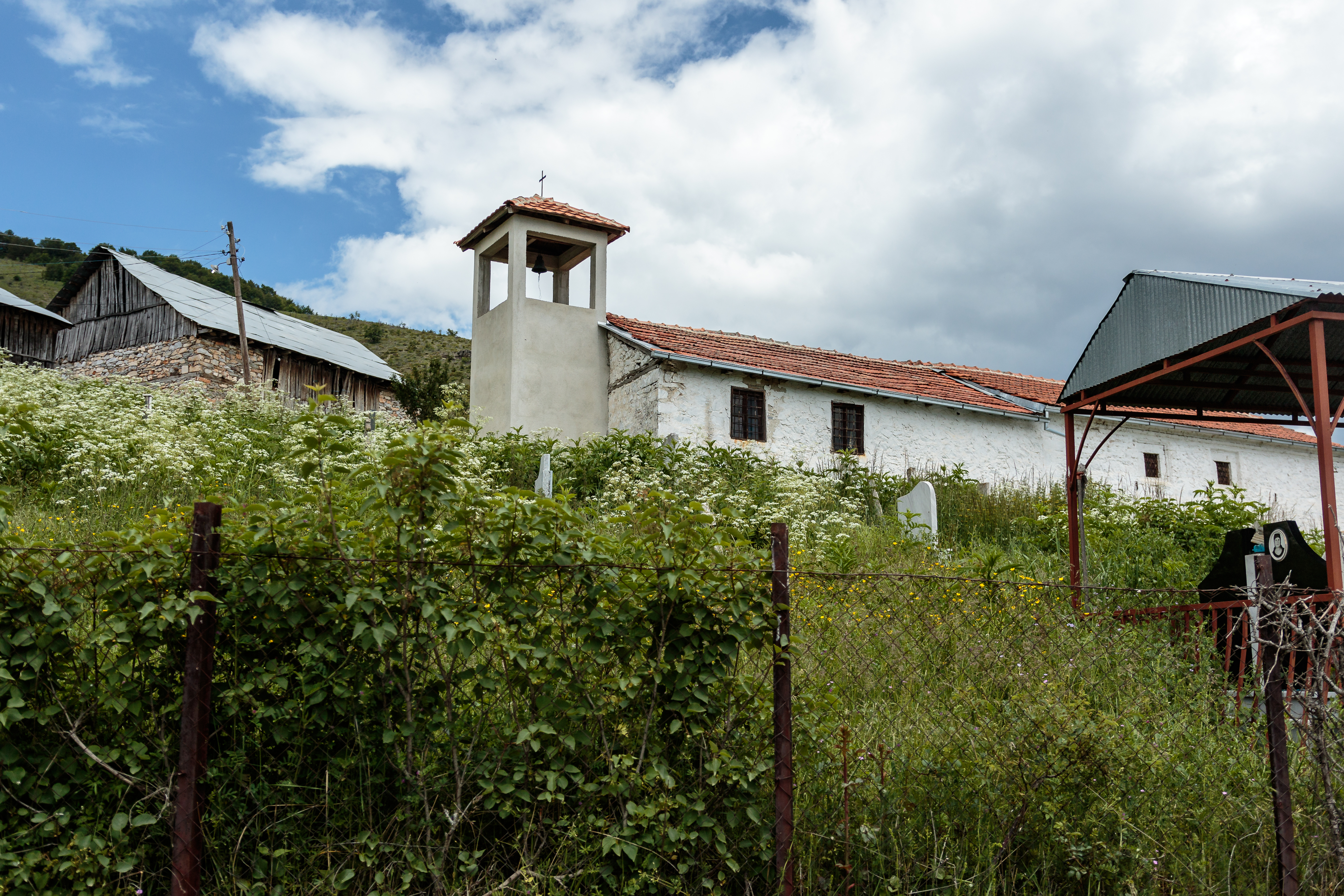 View of the St. Elijah Church in the village Zašle